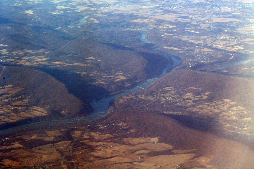 Oblique air photo of the Potomac River flowing through water gaps in the Blue Ridge Mountains. Virginia on the left, Maryland on the right, West Virginia in upper right, including Harpers Ferry (partially obscured by Maryland Heights) at the confluence of the Potomac and Shenandoah Rivers, and Charles Town at top. U.S. Route 340 runs westward up the middle of the photograph, from Brunswick, Maryland to Charles Town. Facing southwest. Taken Jan 17, 2009. Light color at right is glare on airplane window glass.